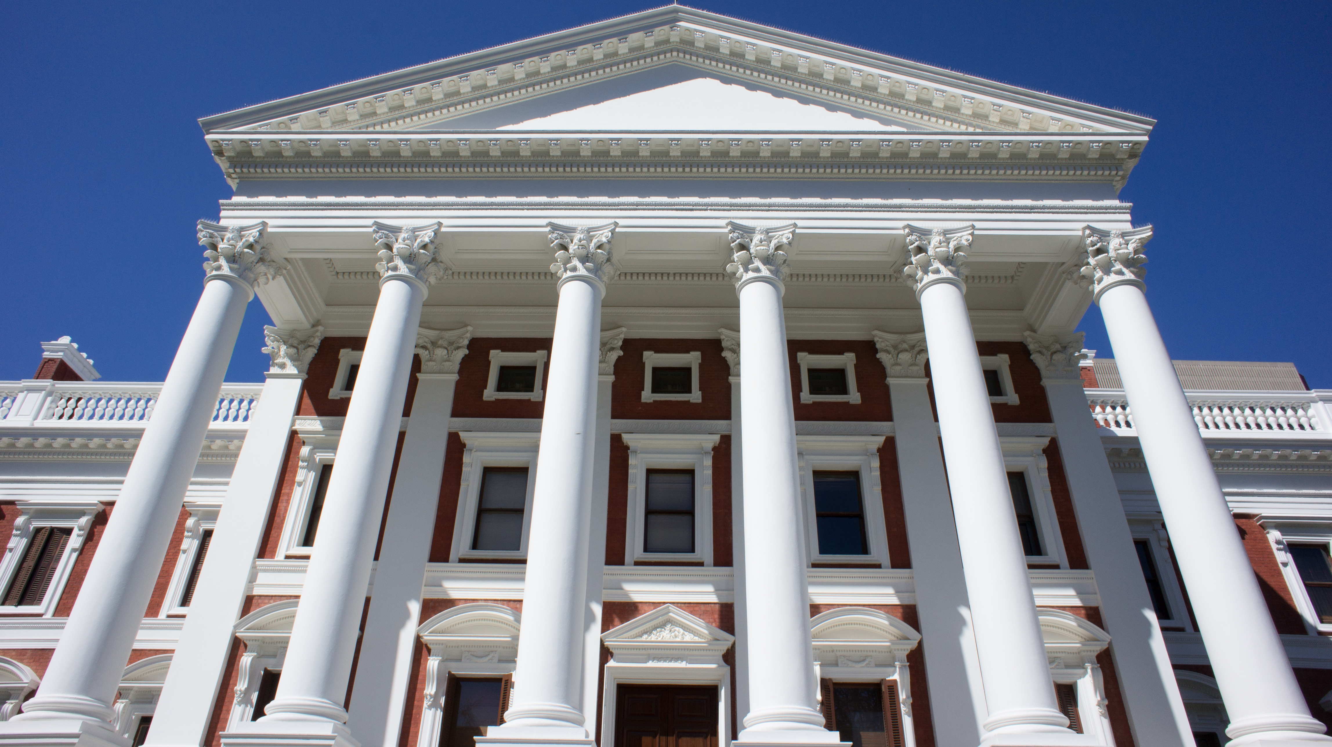 This media shows a South African Protected Site with SAHRA file reference 9/2/018/0234.